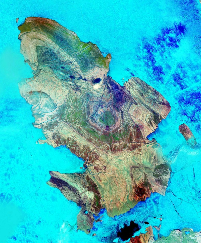 Satellite image of Amund Ringnes Island